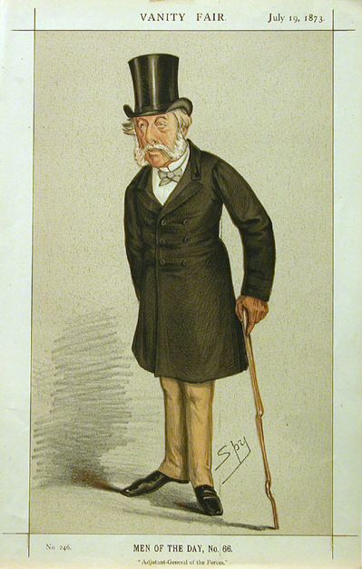 Richard Airey, general caricatured by Spy (Sir Leslie Ward) for Vanity Fair (19 July 1873) Caption reads "MEN OF THE DAY No. 66" "Adjutant-General of the Forces"